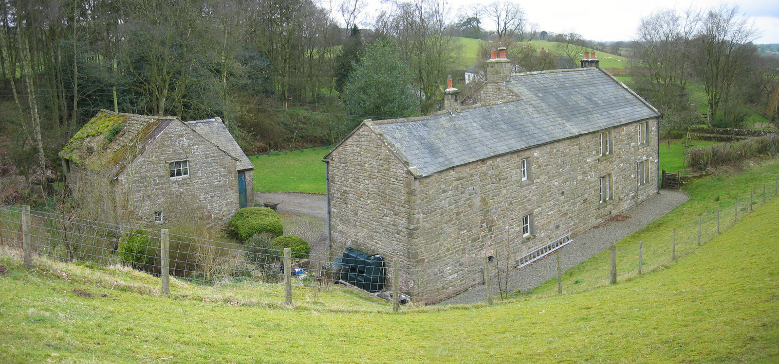 Photograph of Clockey Mill, a disused corn mill in Kingwater, Cumbria, England